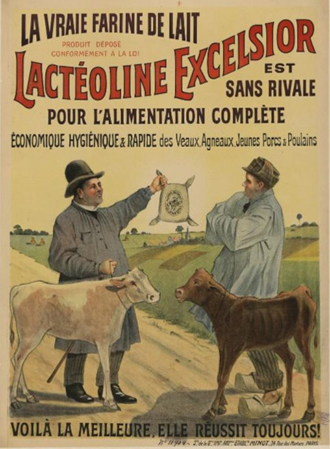 Vintage poster (lithograph) advertising for a "true flour milk" brand Lactoléine Ecelsior (late nineteenth or early twentieth century). The real meal milk [...] "lactoléine Excelsior" (produced by Minot institutions. "This flour is presented as" without rival for the full economic power, hygienic and quick "calves, lambs, young pigs and foals